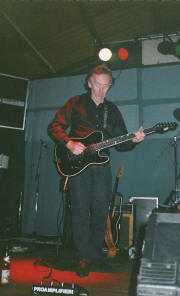 Picture of Dick Taylor, member of the Rolling Stones and of the Pretty Things.